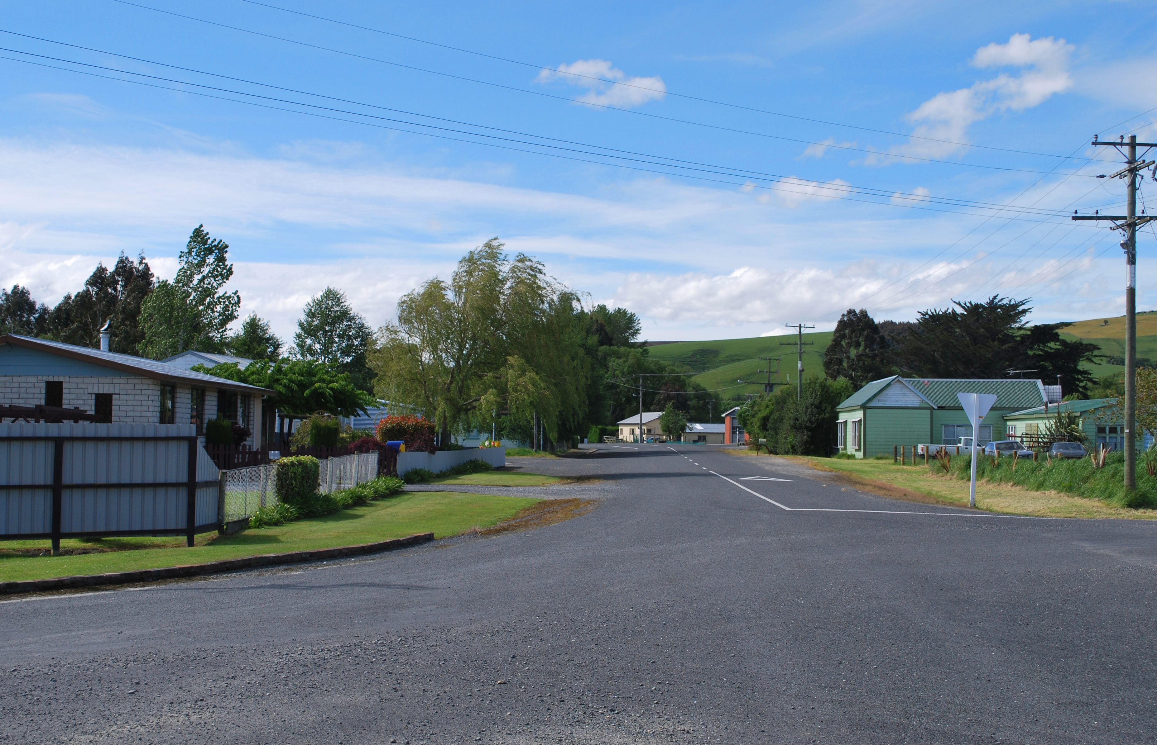 Boyldon Street in Waitahuna, New Zealand, from the intersection with Sunderland Street, looking north